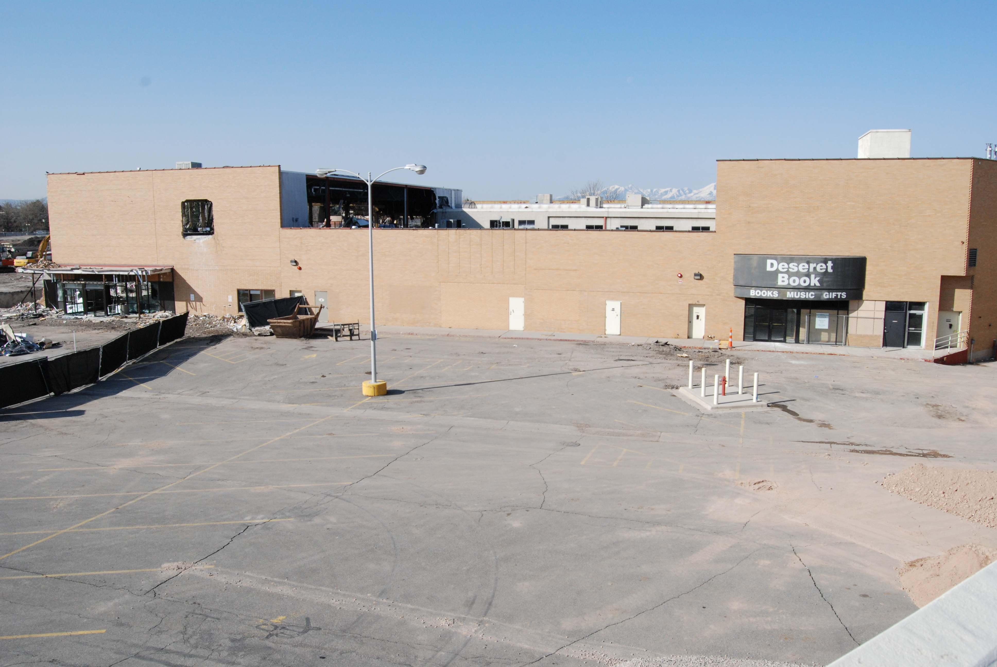 The backside of Cottonwood Mall. Next to the Macy's.